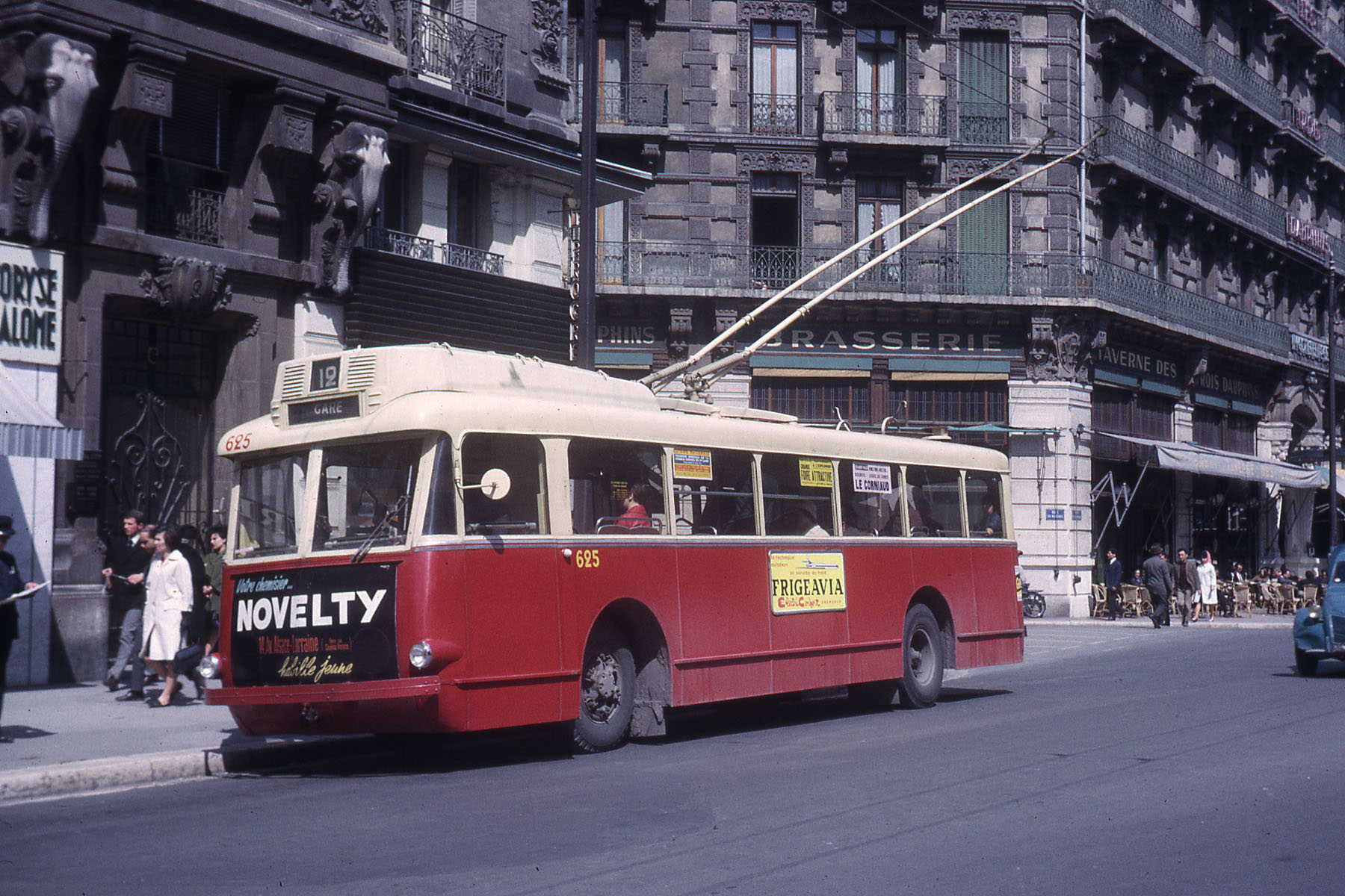 Grenoble trolleybus 625, an ex-Strasbourg Vétra VBR, at the Rue Felix Poulat stop in 1965. It was acquired secondhand by Grenoble in 1961.